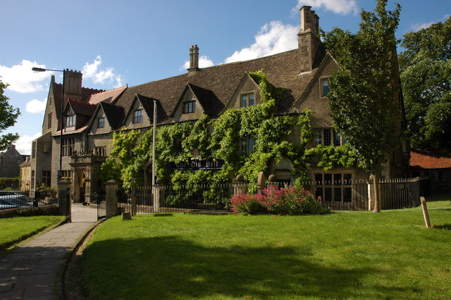 The Old Bell Hotel and Restaurant, Malmesbury